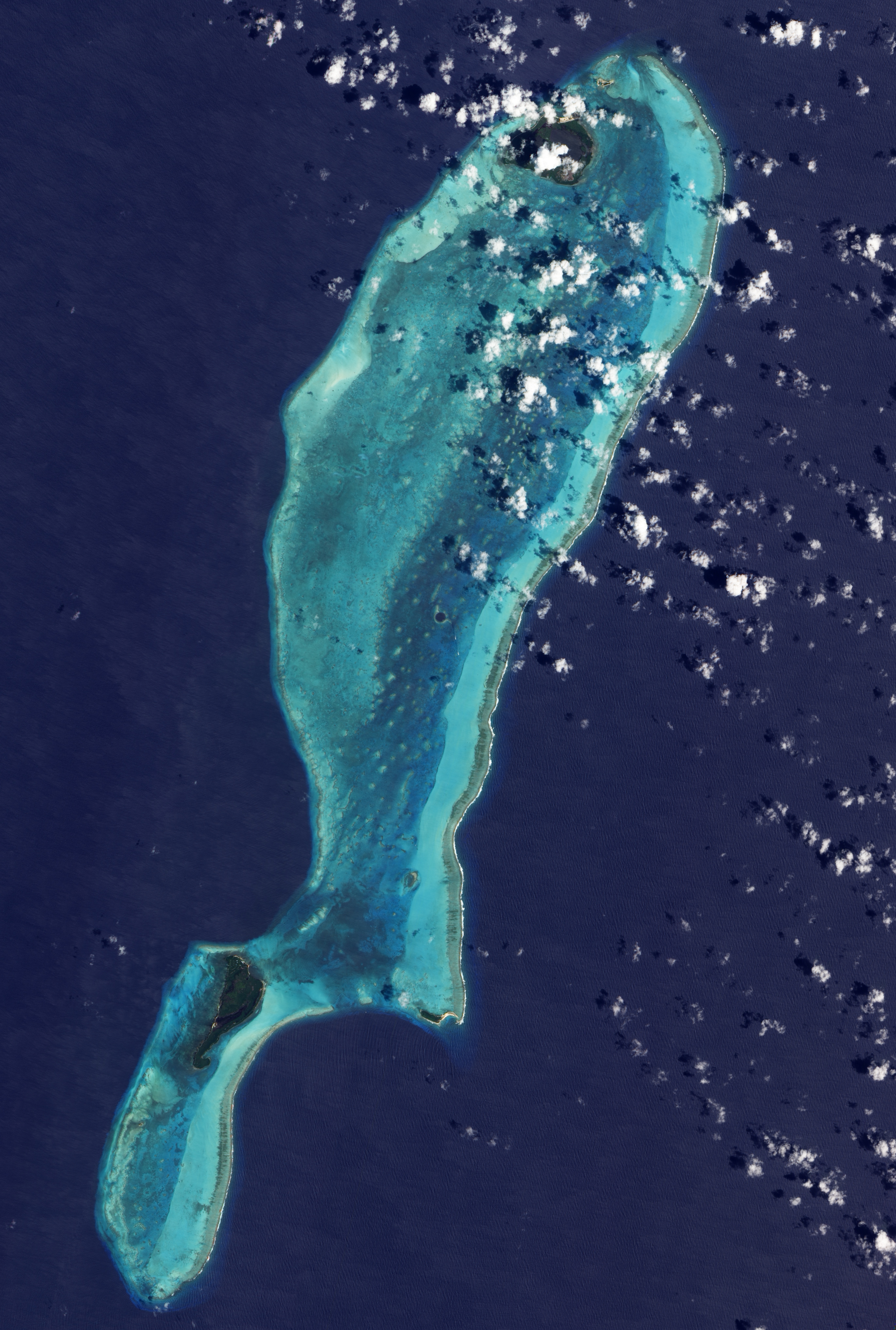 NASA image of Lighthouse Reef, Belize, which includes the Great Blue Hole roughly near its center.Created by Jesse Allen, using EO-1 ALI ,data provided courtesy of the NASA EO-1 Team.